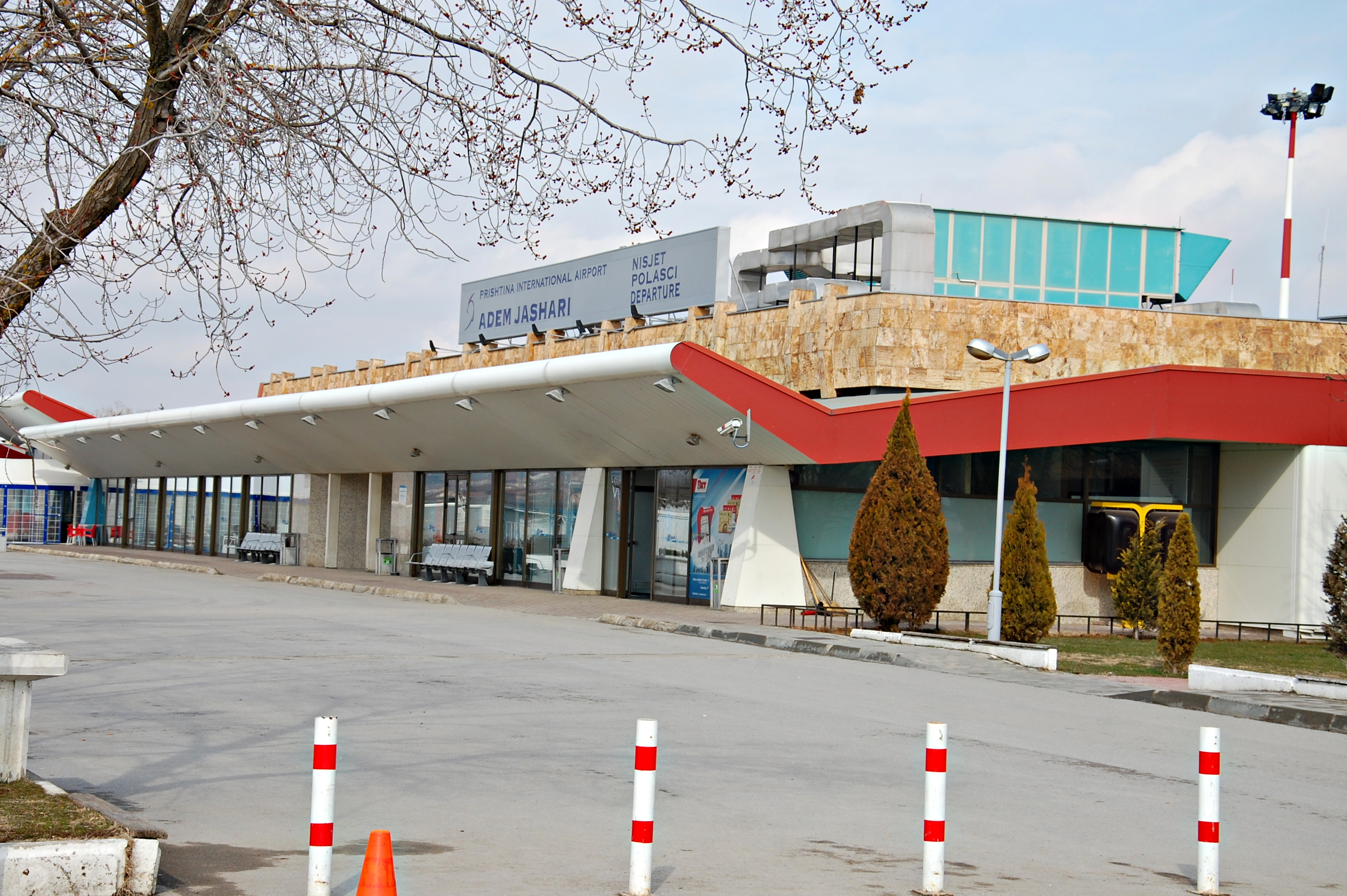 Prishtine